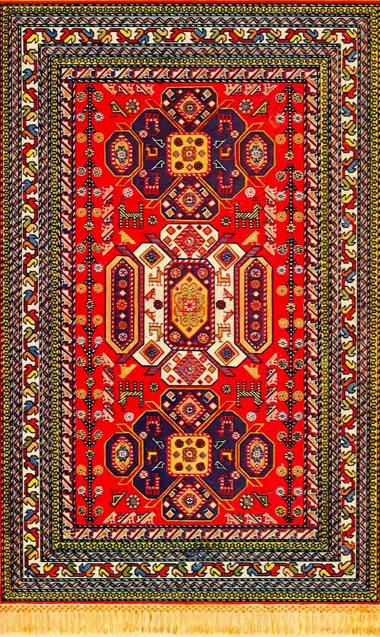 Kazakh rug, Kazakh schaool, XIX c.